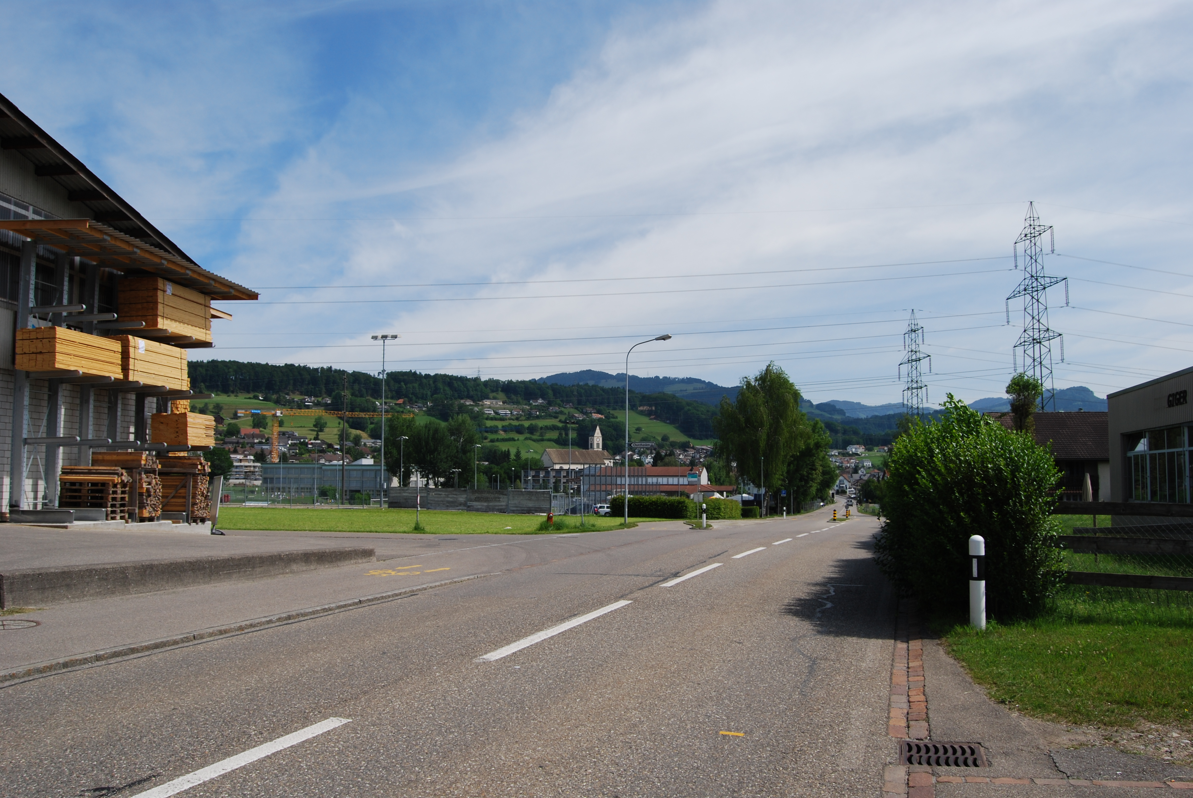 Eschenbach, canton of St. Gallen, SwitzerlandEsperanto: Eschenbach, Kantono Sankt-Galo, Svislando